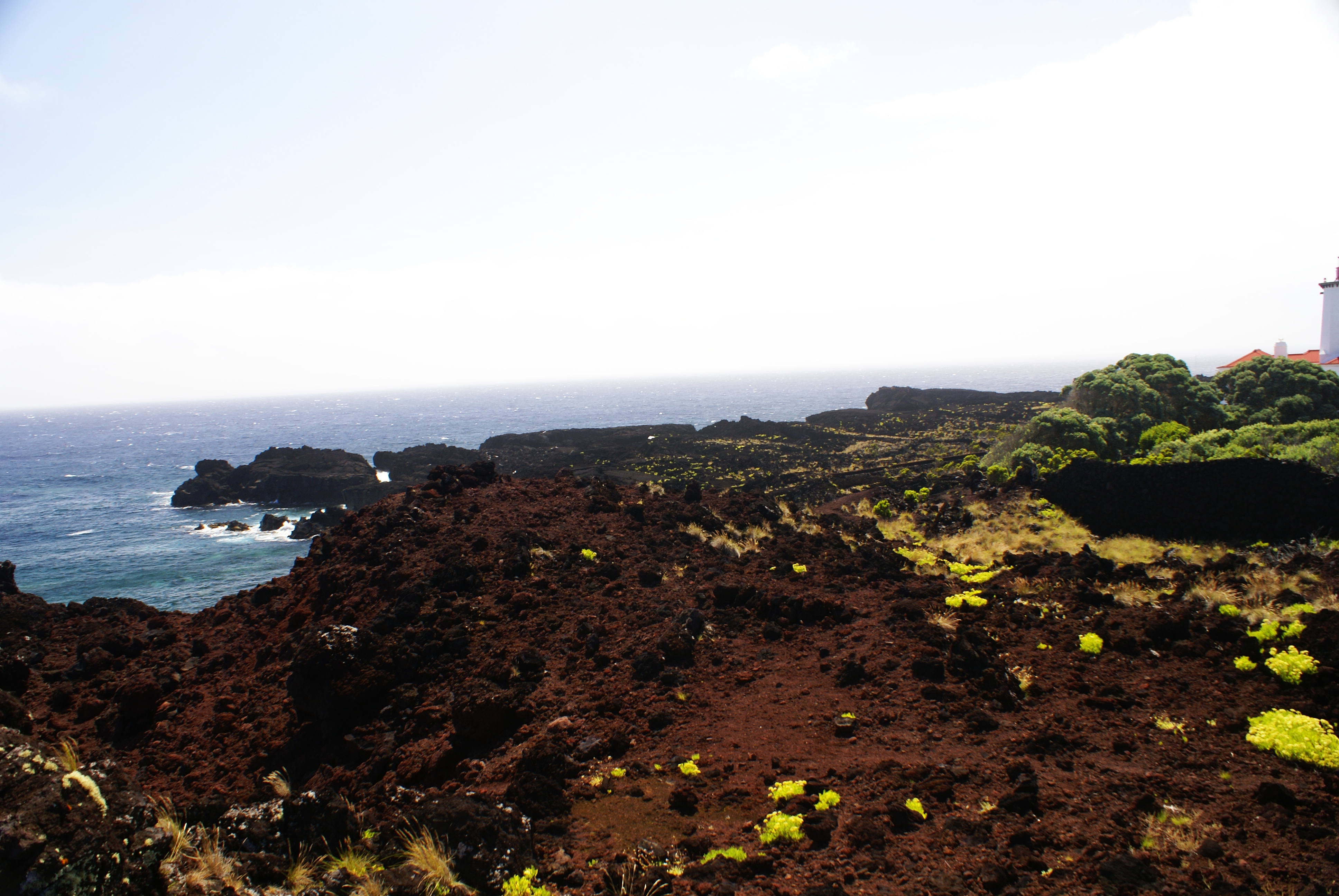 The eastern edge of the island of Pico, as seen from the pedestrian trail, civil parish of Piedade, municipality of Lajes do Pico (Azores), Portugal